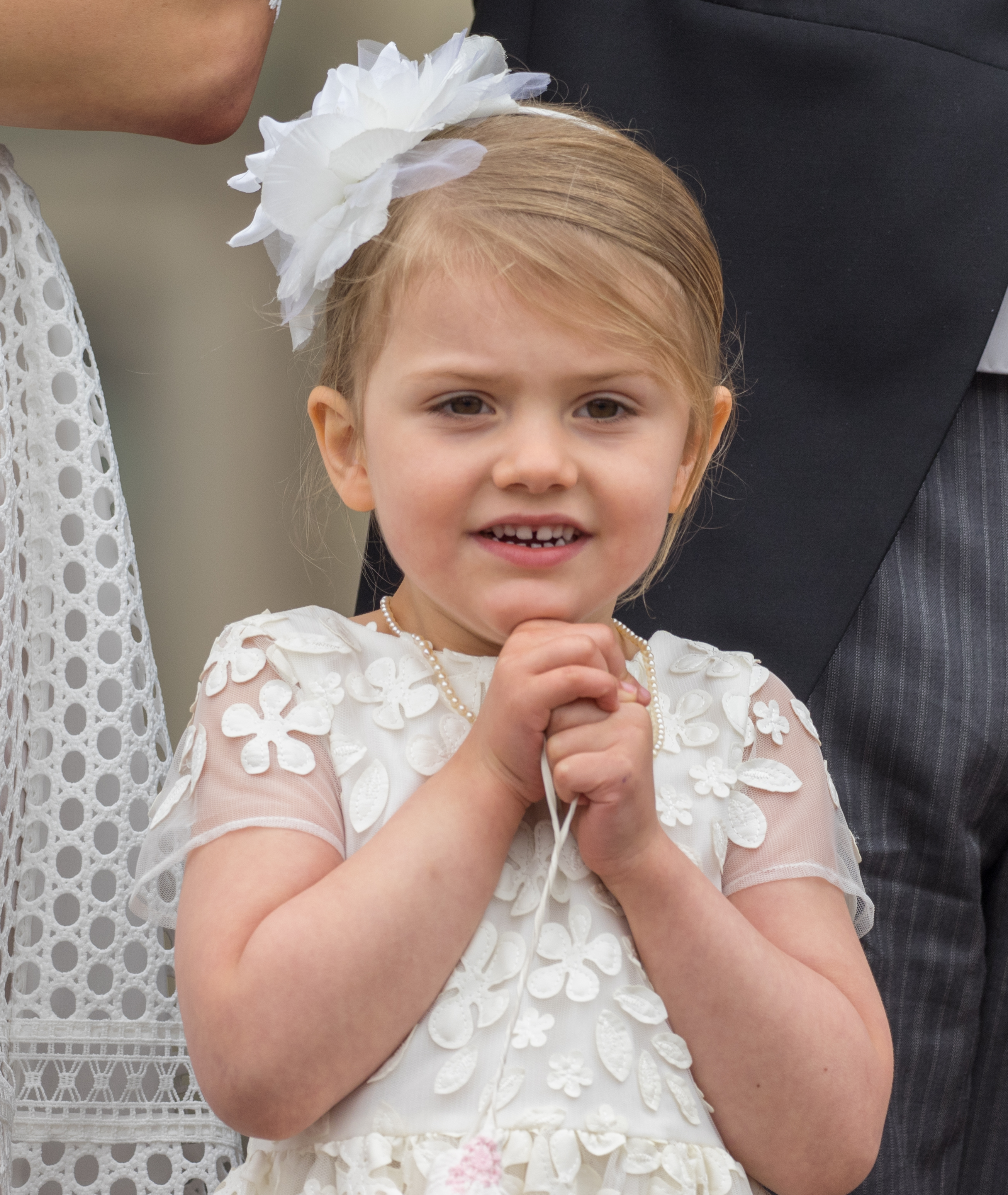 Crown Princess Victoria of Sweden with children in 2016